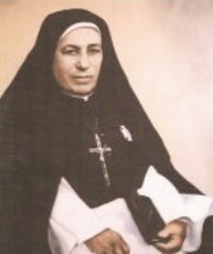 María Natividad Venegas de la Torre (1868-1959), Mexican Roman Catholic nun, named "María of Jesus in the Blessed Sacrament", foundress of religious community, canonized